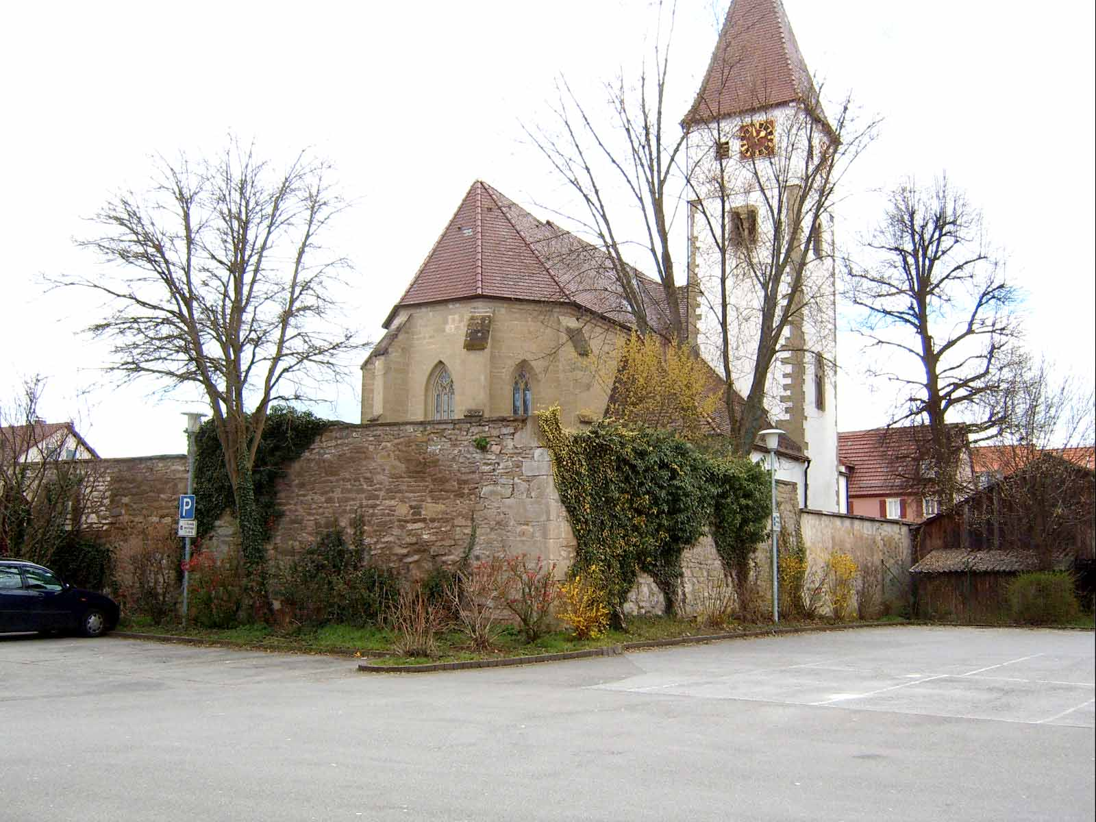 Nufringen (Church-Castle); District of Böblingen; Federal State of Baden-Württemberg; Germany